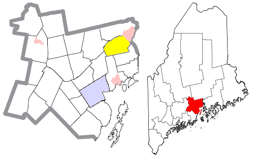 Map of the divisions of Waldo County, Maine, United States, with the town of Frankfort highlighted in yellow. The city of Belfast is light blue; other towns are white; and pink areas are census-designated places within towns.